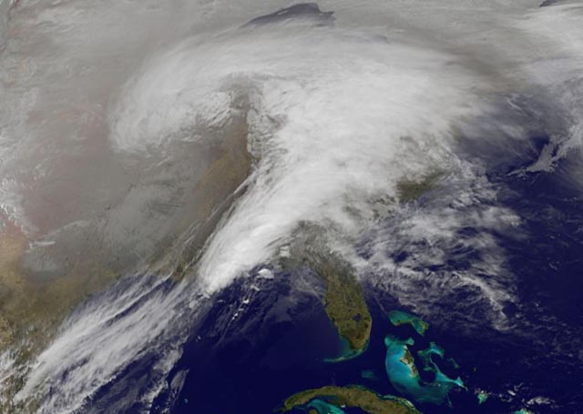 Infrared satellite image of the "Groundhog Day Storm" of 2011, taken at 8 pm EST February 1, 2011 (0100 UTC Feb. 2).